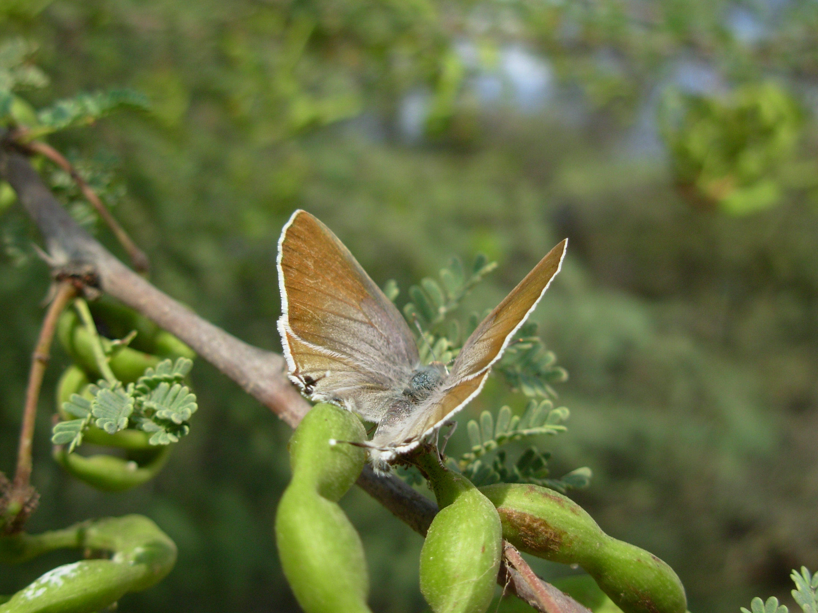 כחליל הרימון (Deudorix livia) בנחל סוללים